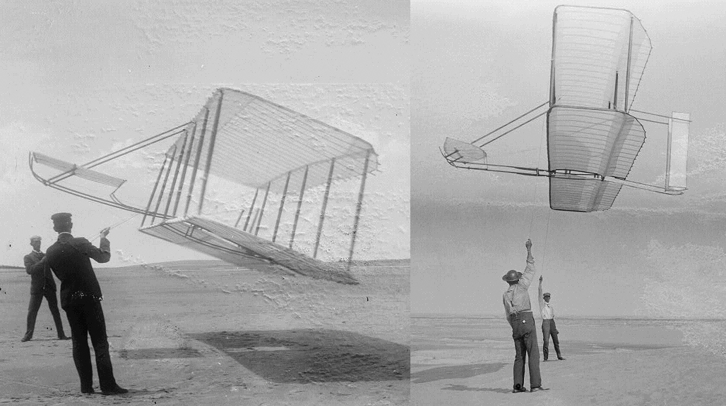 Photo edit of 1901 (left) and 1902 (right) Wright Brothers gliders